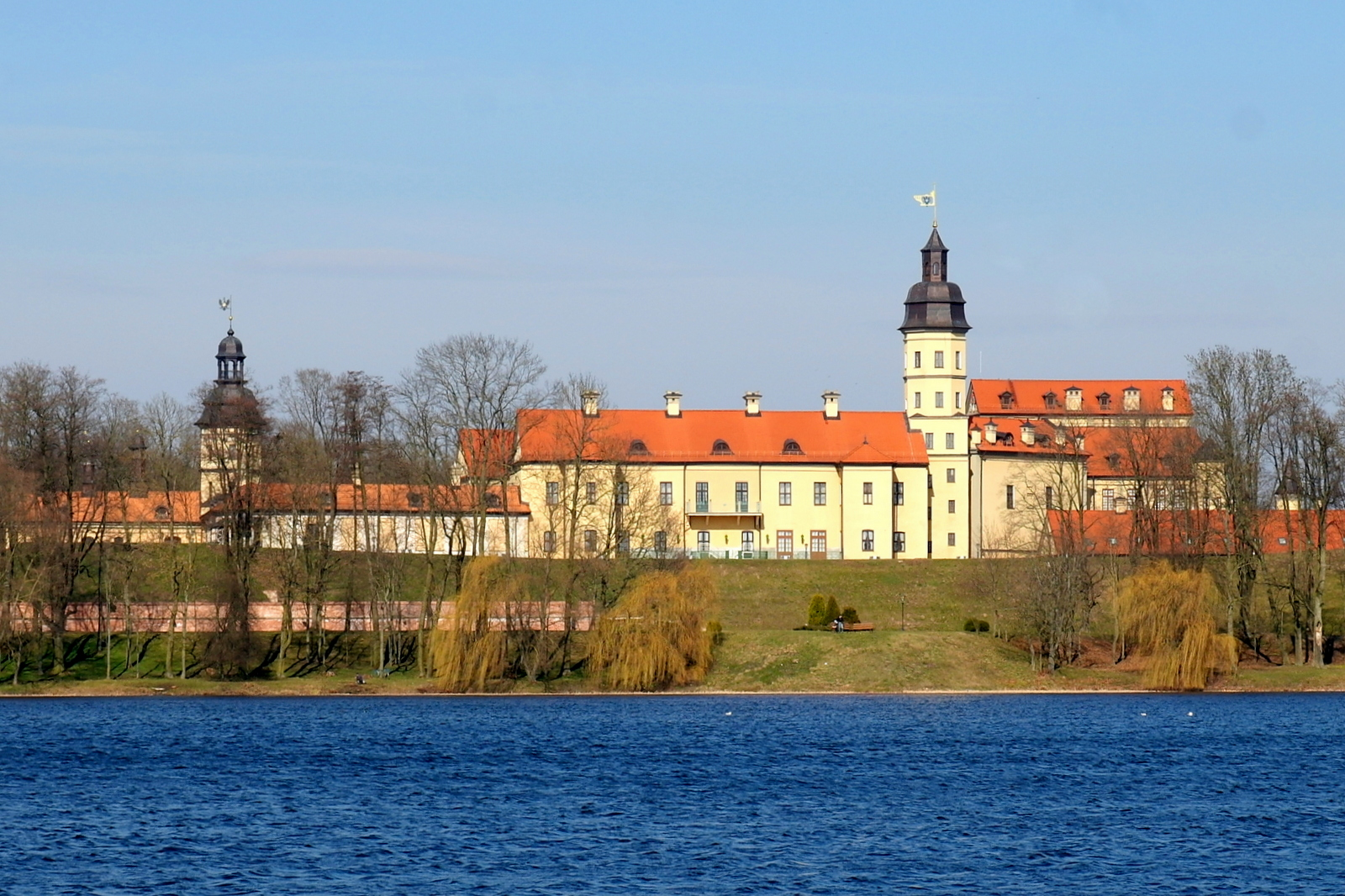 Nesvizh Palace and park grounds of Radziwiłł family: castle- palace, defensive structures, ponds and parks. View of the castle from the southeast, across the Castle pond. Nesvizh_610Г000466